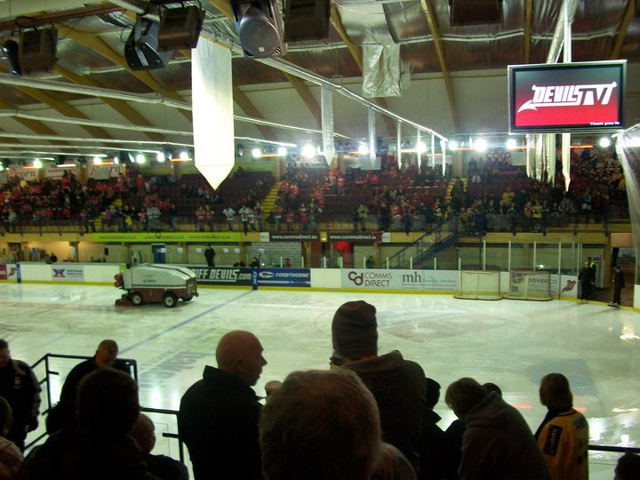 Interior of Cardiff Arena during the 2010 Challenge Cup Final.